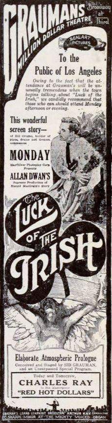 Newspaper advertisement the American drama film The Luck of the Irish (1920) with James Kirkwood and Anna Q. Nilsson, originally for Grauman's Theater in Los Angeles, California, on page 73 of the January 31, 1920 Exhibitors Herald